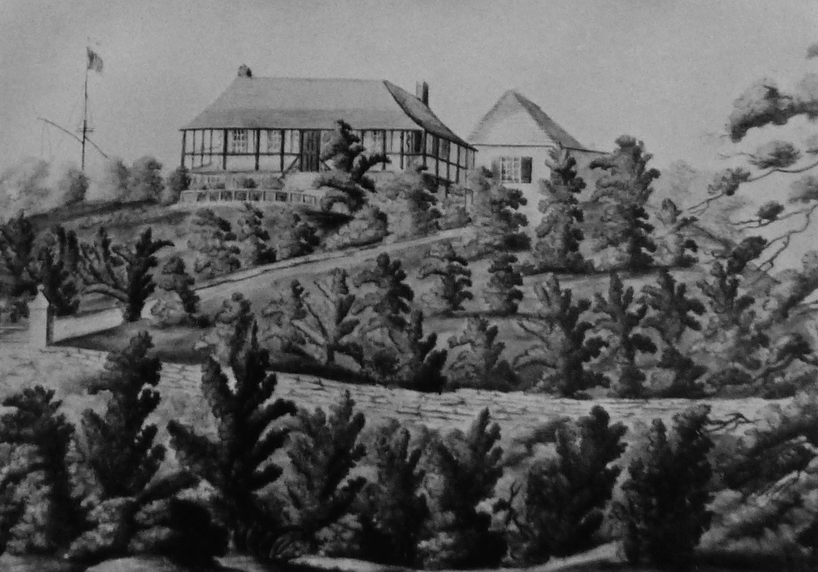 A painting (circa 1818) of Mount Wyndham, at Baileys Bay, in Hamilton Parish, Bermuda, from 1810 to 1816 the site of the Admiralty House for the North America and West Indies Station of the Royal Navy.